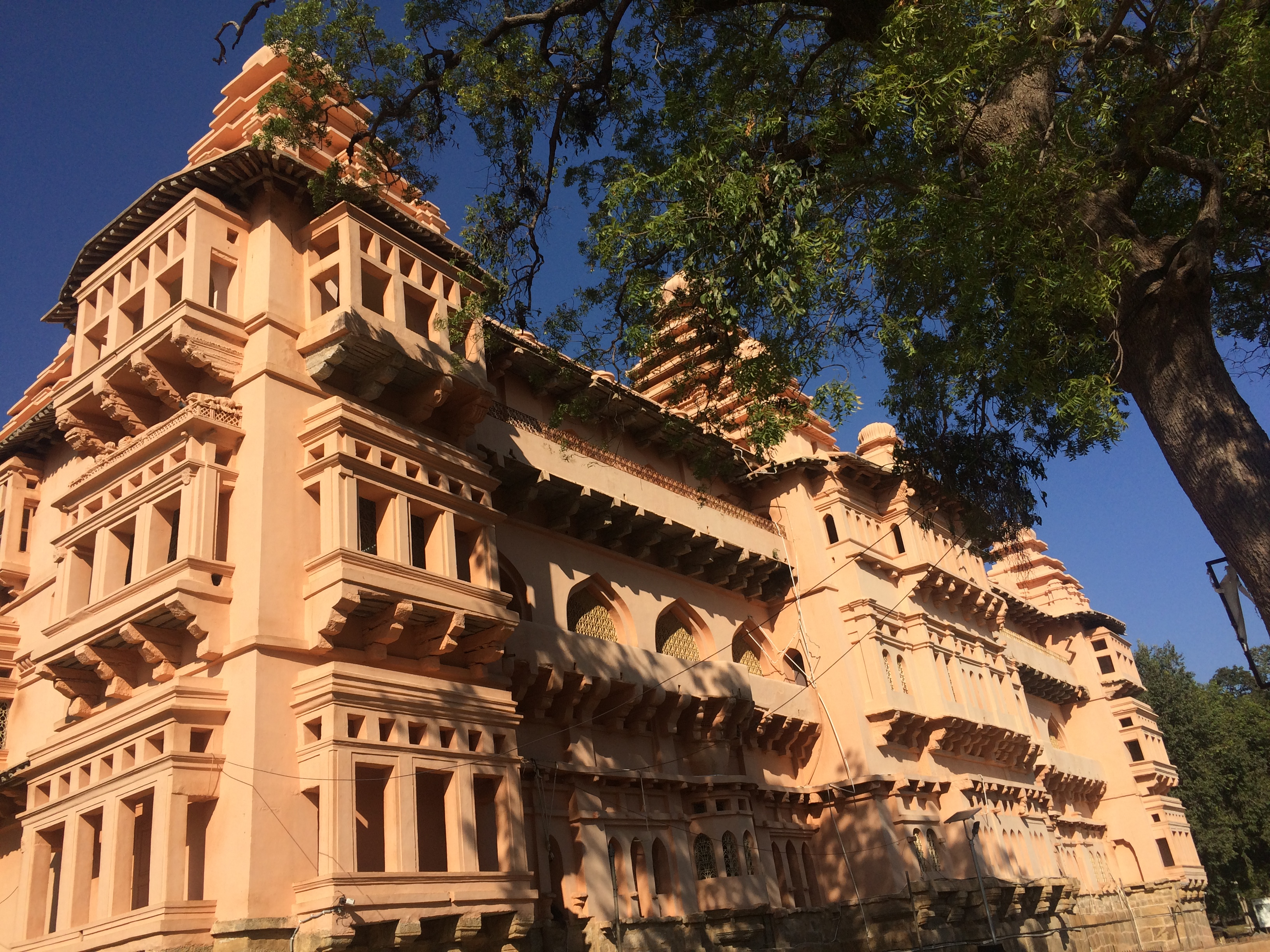 Raja Mahal Palace of Vijayanagara Kings at Chandragiri Fort in Andhra Pradesh.